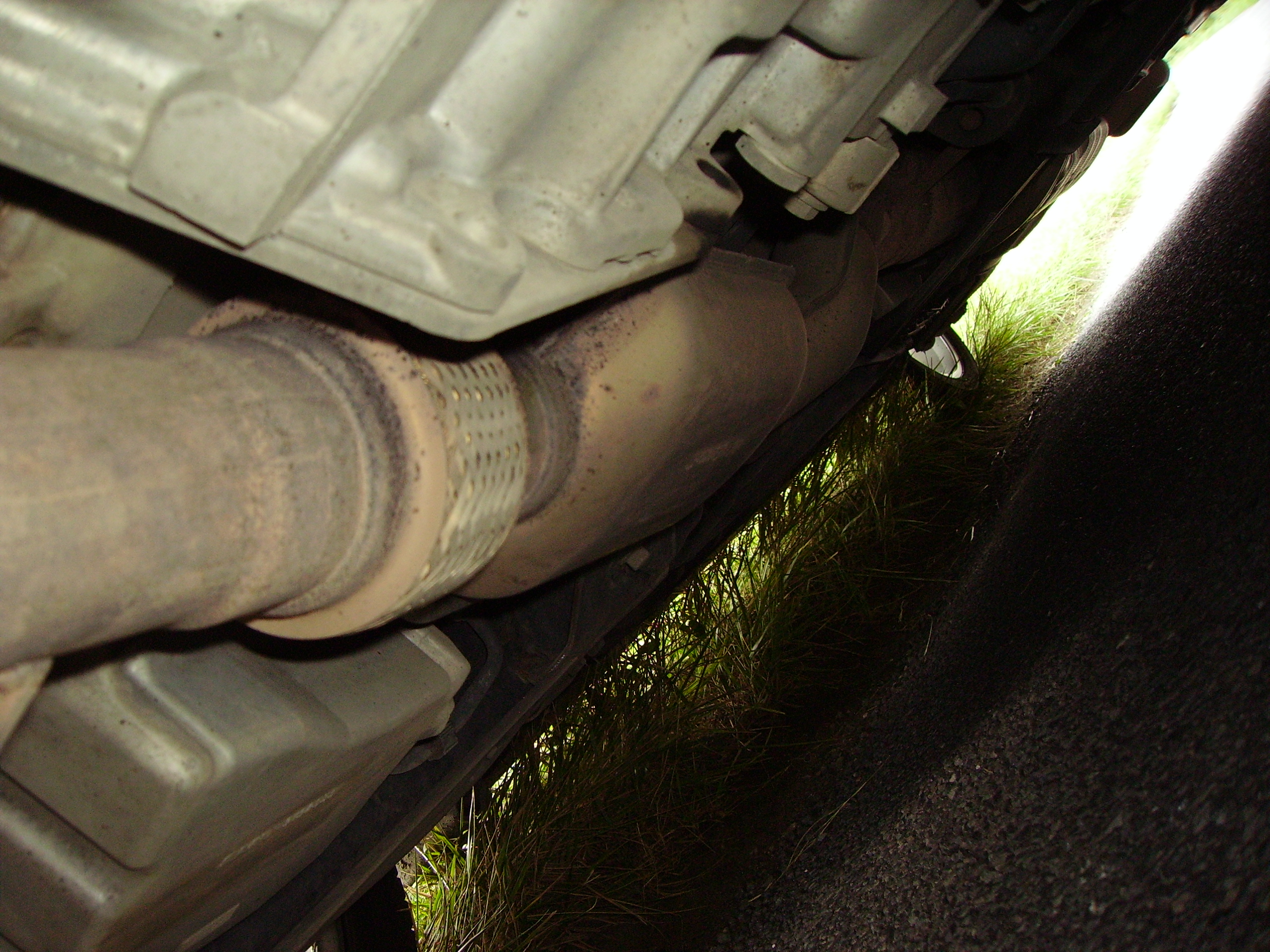 Catalytic converter of Saab 9-5 (YS3E, 2001–2005) SportCombi